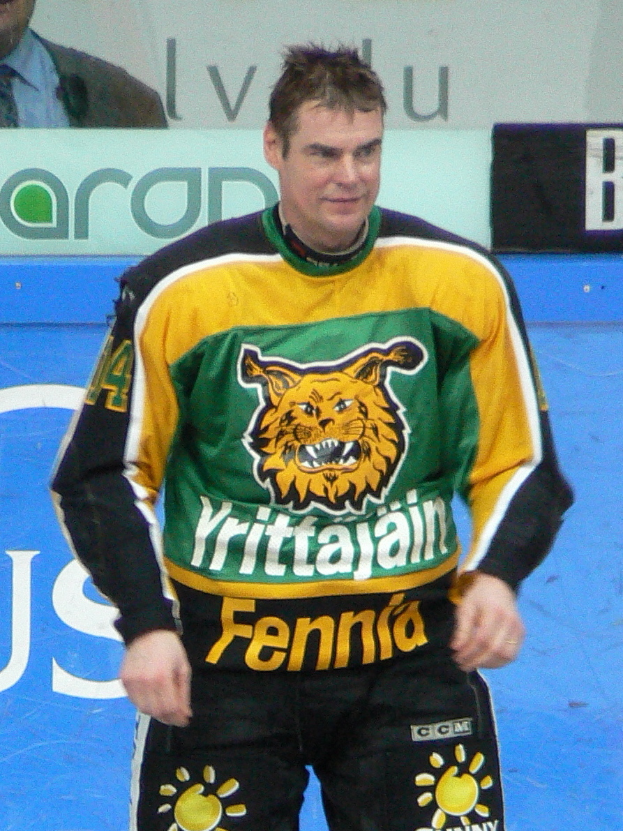 Finnish ice hockey center Raimo Helminen of Ilves Tampere donning a 1985 jersey after his last regular season game. Tampere, Finland.